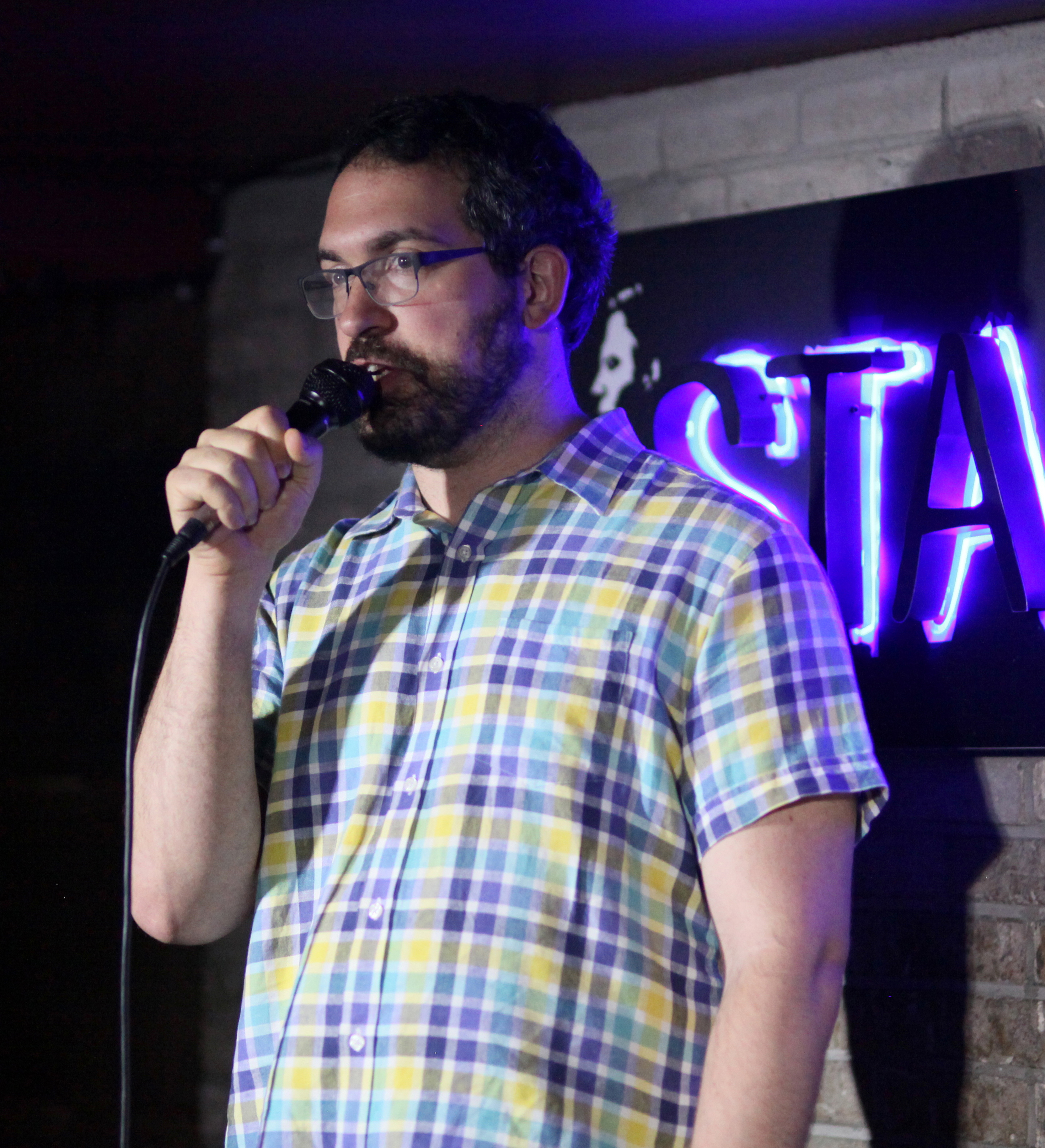 Matt Koff performing at The Stand in July 2016.